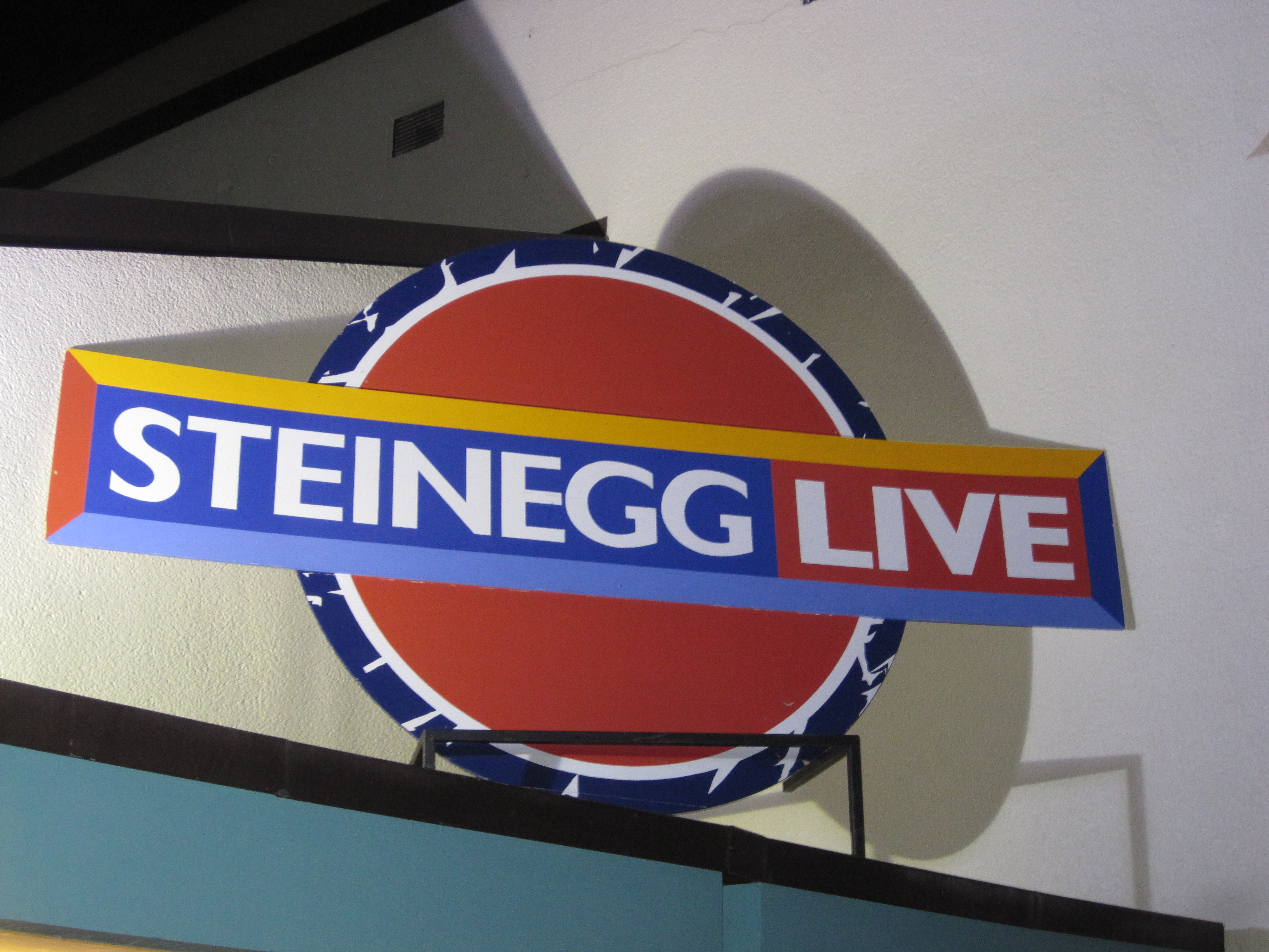 Festival "Steinegg Live" in Steinegg, South Tyrol (Provincia di Bolzano).